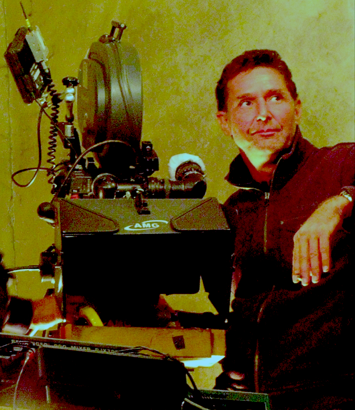 Fabio Olmi shooting Basilicata Coast2Coast